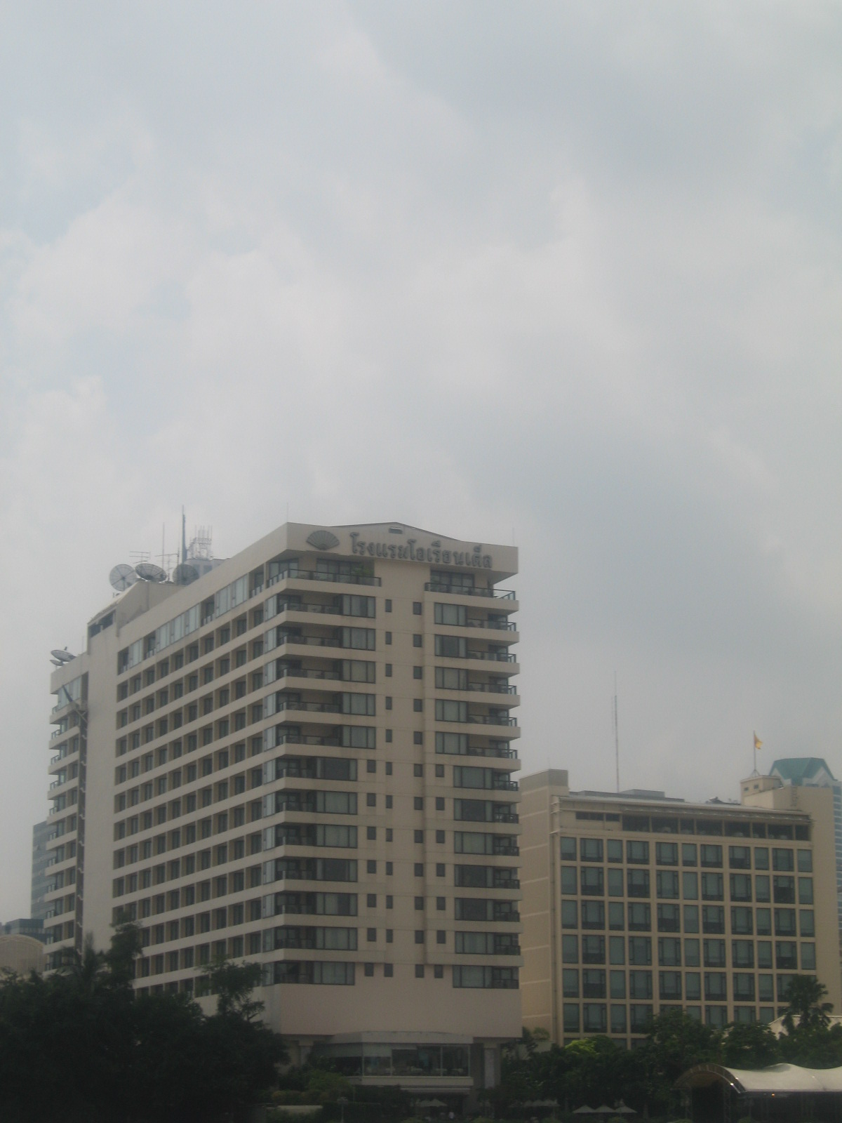 The Oriental Bangkok.